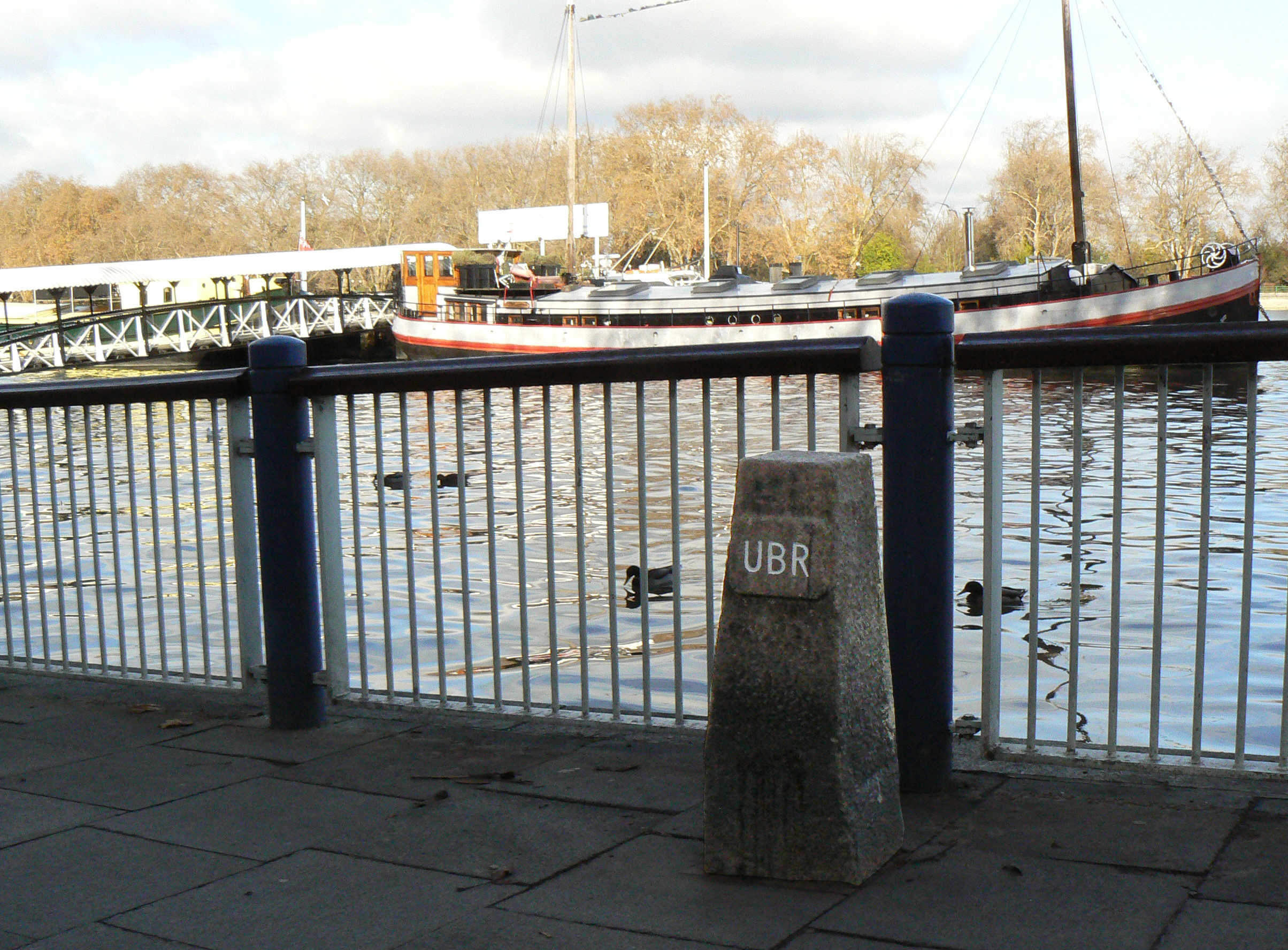 University boat race stone near Putney Pier, Thames River, London. This marks the start of the Cambridge-Oxford University Boat Race.